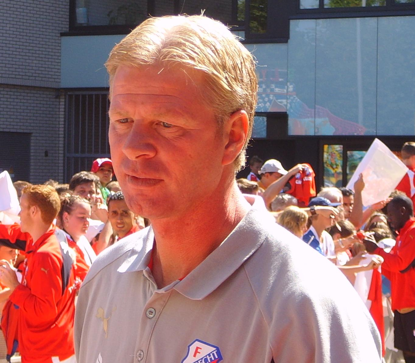 John van Loen, co-trainer of FC Utrecht